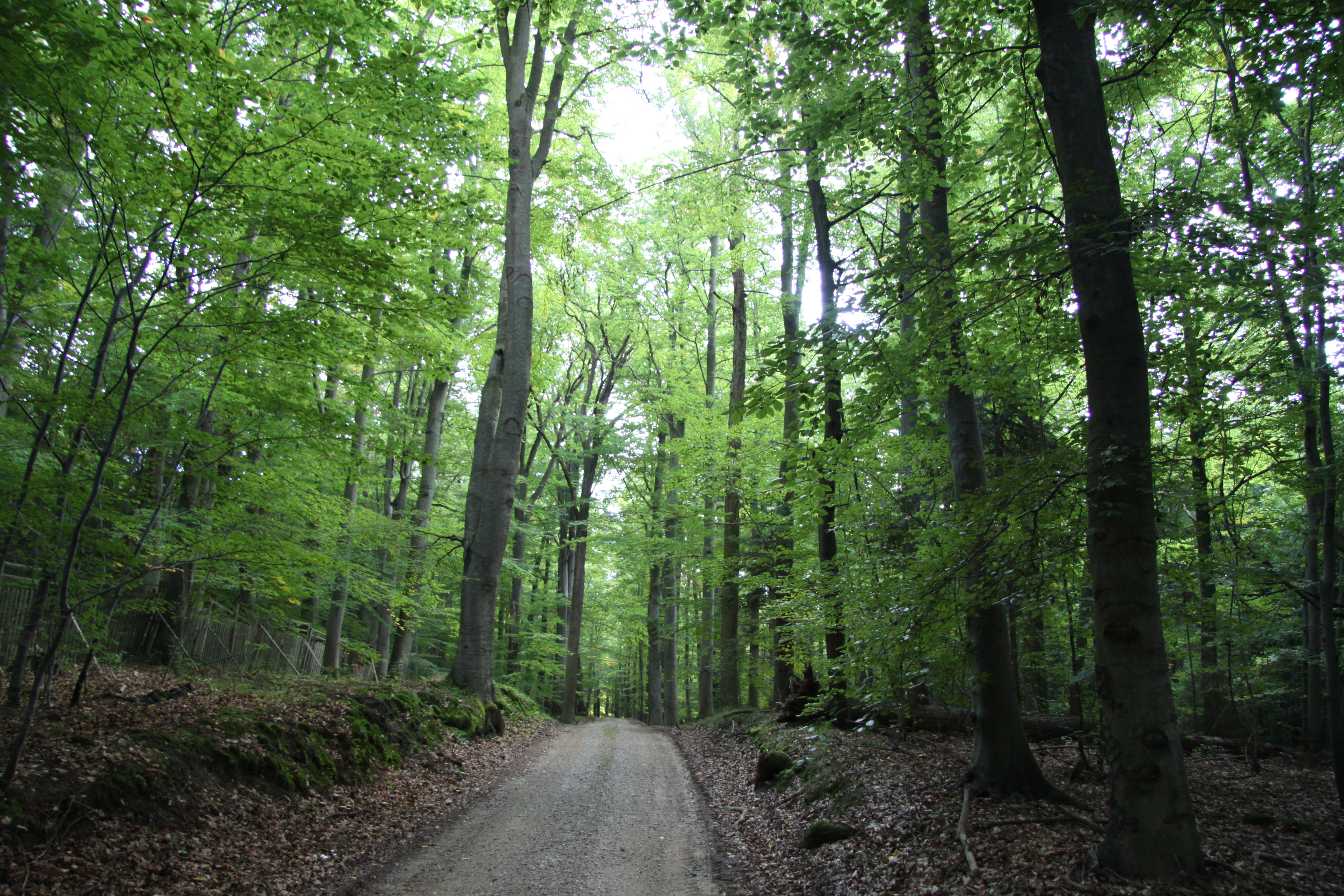 Natural monument Sobědražský prales in Písek District, Czech Republic.